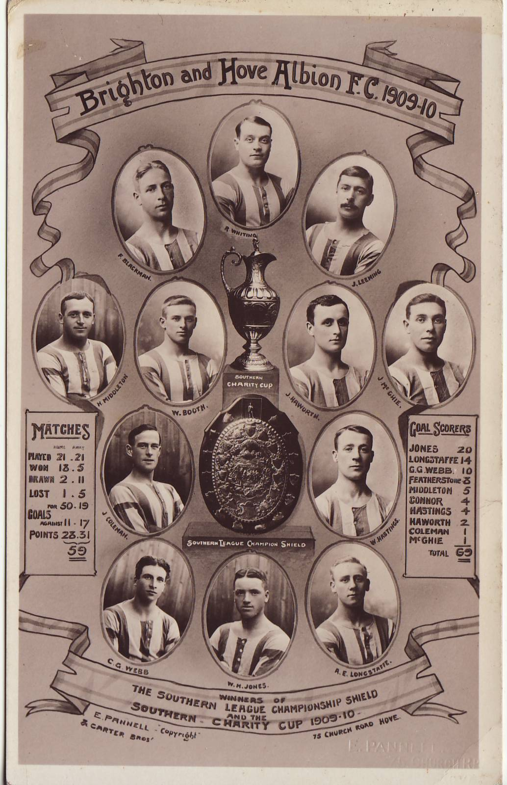 Souvenir postcard of Brighton & Hove Albion Football Club, celebrating their Southern League title and Southern Charity Cup win in the 1909-1910 season